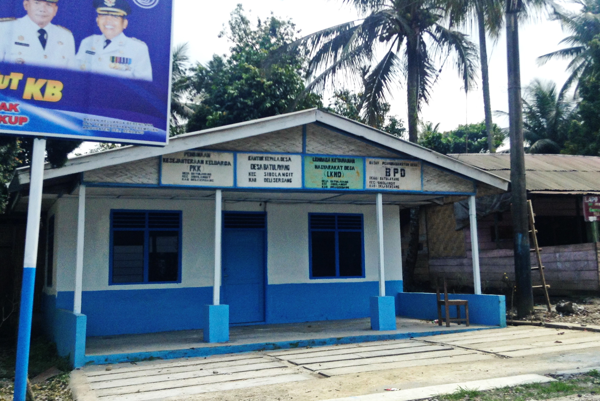 Office village of Batu Layang, Sibolangit, Deli Serdang, North Sumatra, Indonesia.